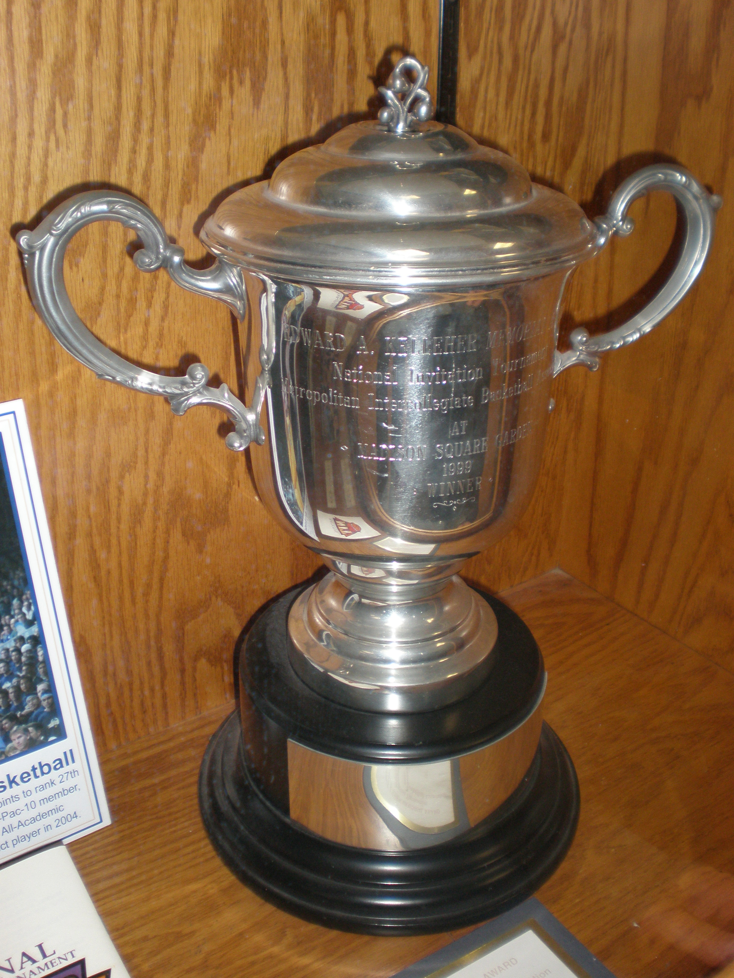 The Edward A. Keller Memorial Award won by the Cal men's basketball team at the 1999 National Invitation Tournament on display in a trophy case in the lobby of Haas Pavilion.